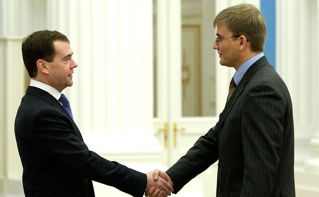 Russian President Dmitry Medvedev and Russian physicist Pavel Belov at award ceremony